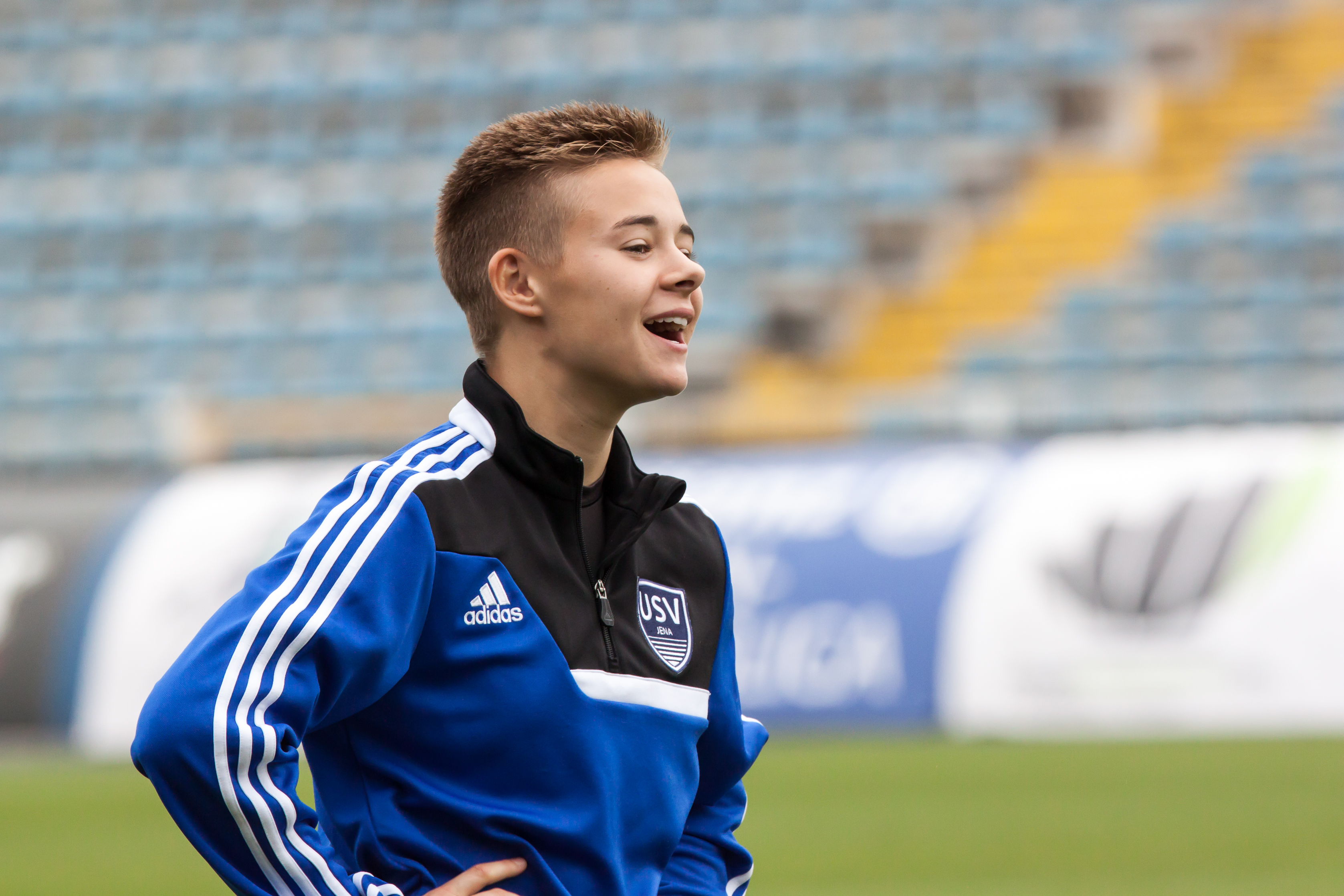 German Women Bundesliga soccer game: FF USV Jena vs. TSG 1899 Hoffenheim, 2014-10-11, at Ernst-Abbe-Sportfeld Jena.